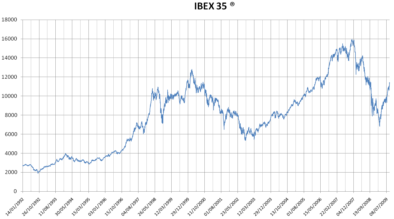 Performance of the IBEX 35 index between January 1992 and August 2009